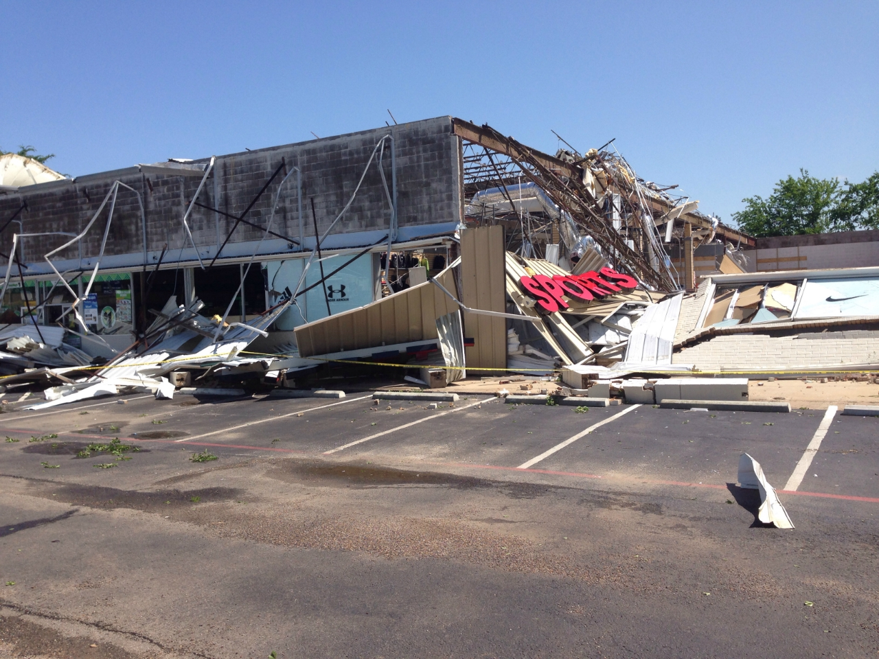 This business was heavily damaged by an EF2 tornado in Lindale, Texas on April 29, 2016.